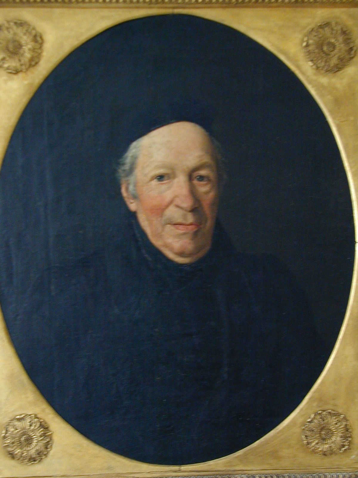 Painting of Johann Baptist Farina (1758-1844) by Simon Meister